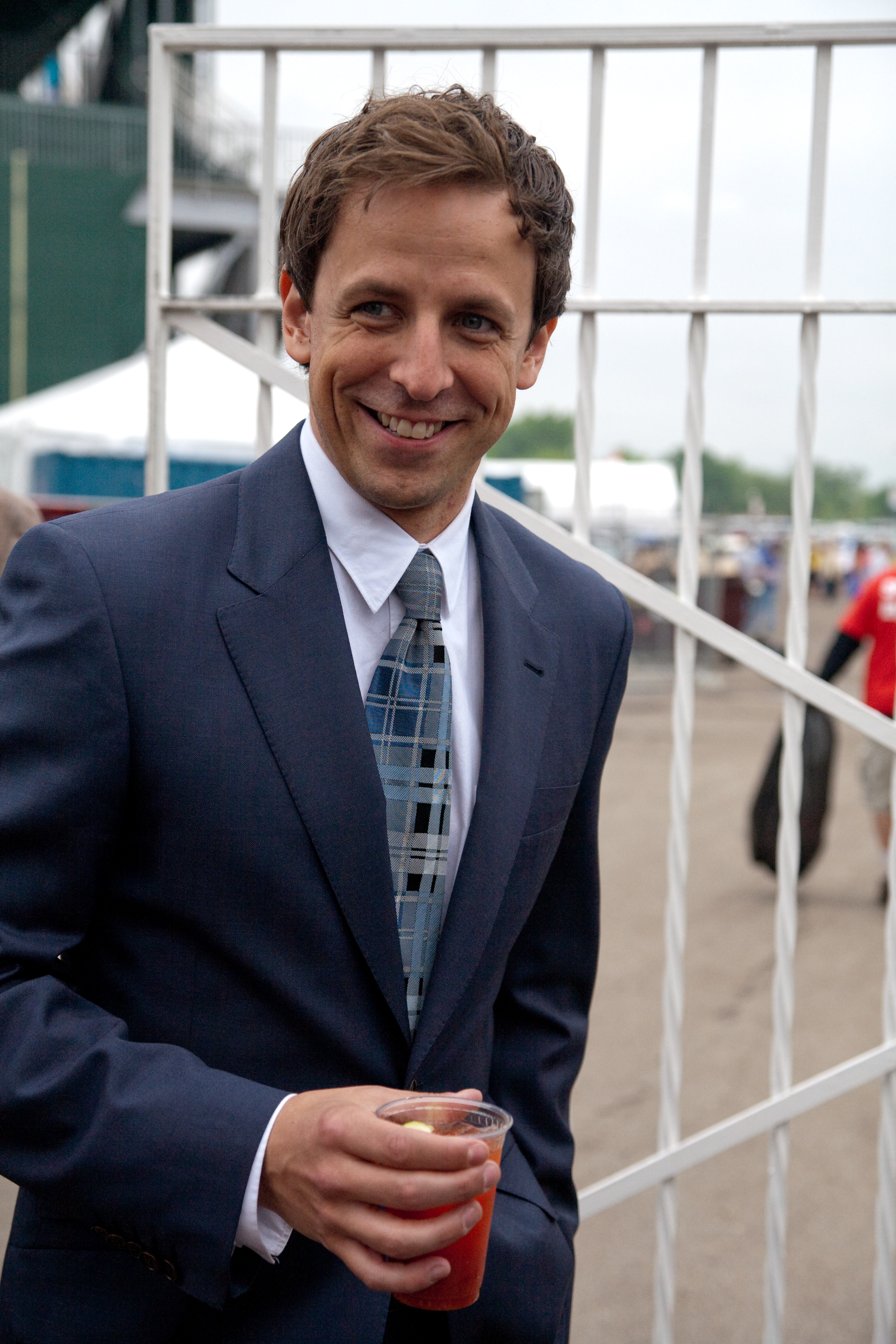 Seth Meyers, 2 Feb 2009.